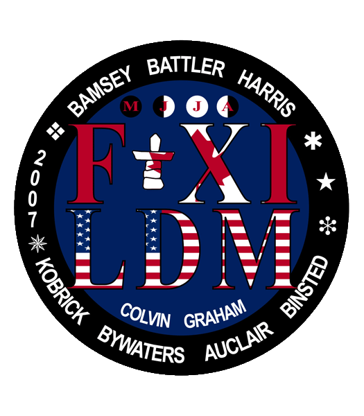 FMARS Crew 11 patch from 2007